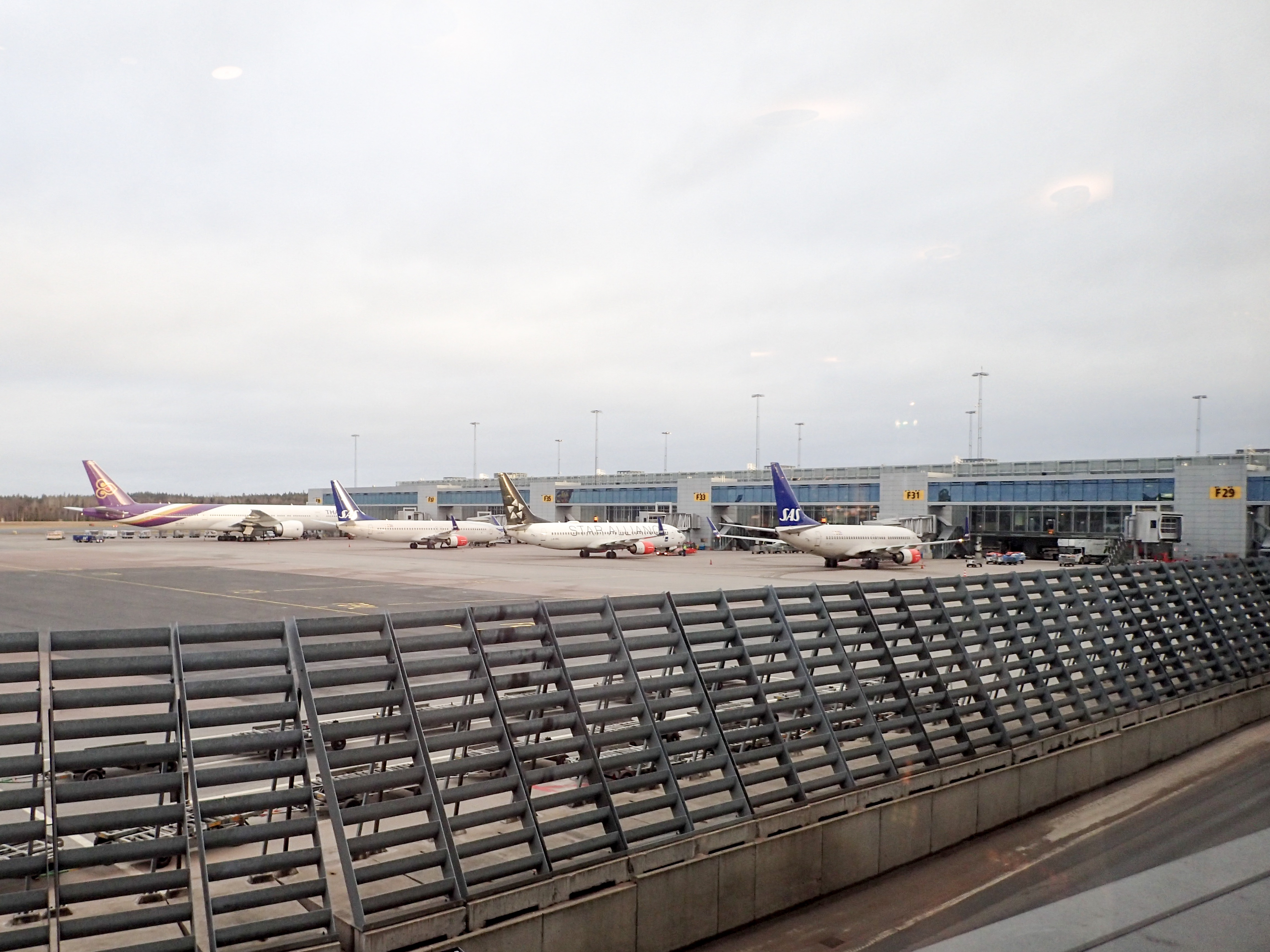 Arlanda Terminal 5 Pier F